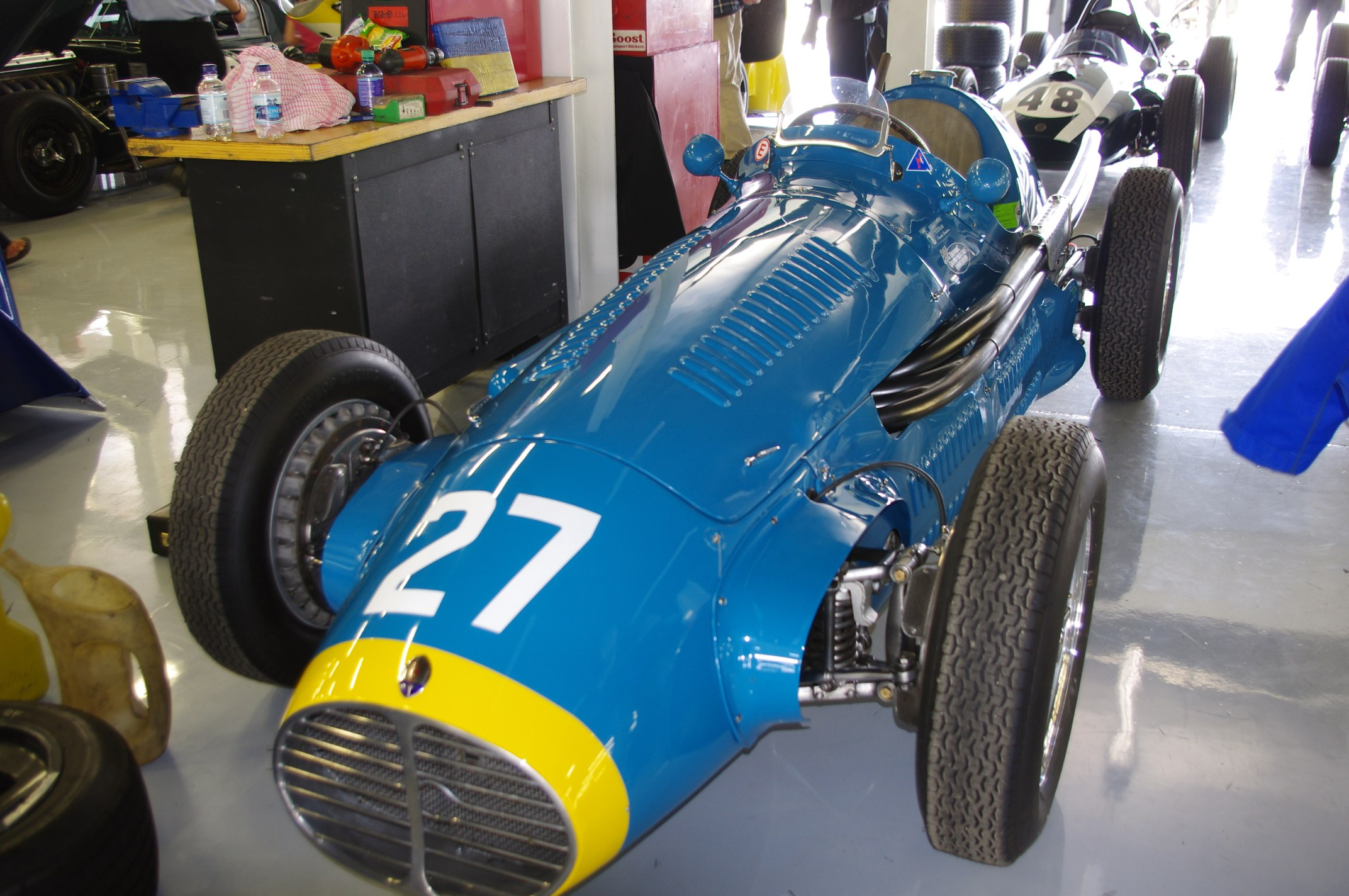 Silverstone Classic 2011